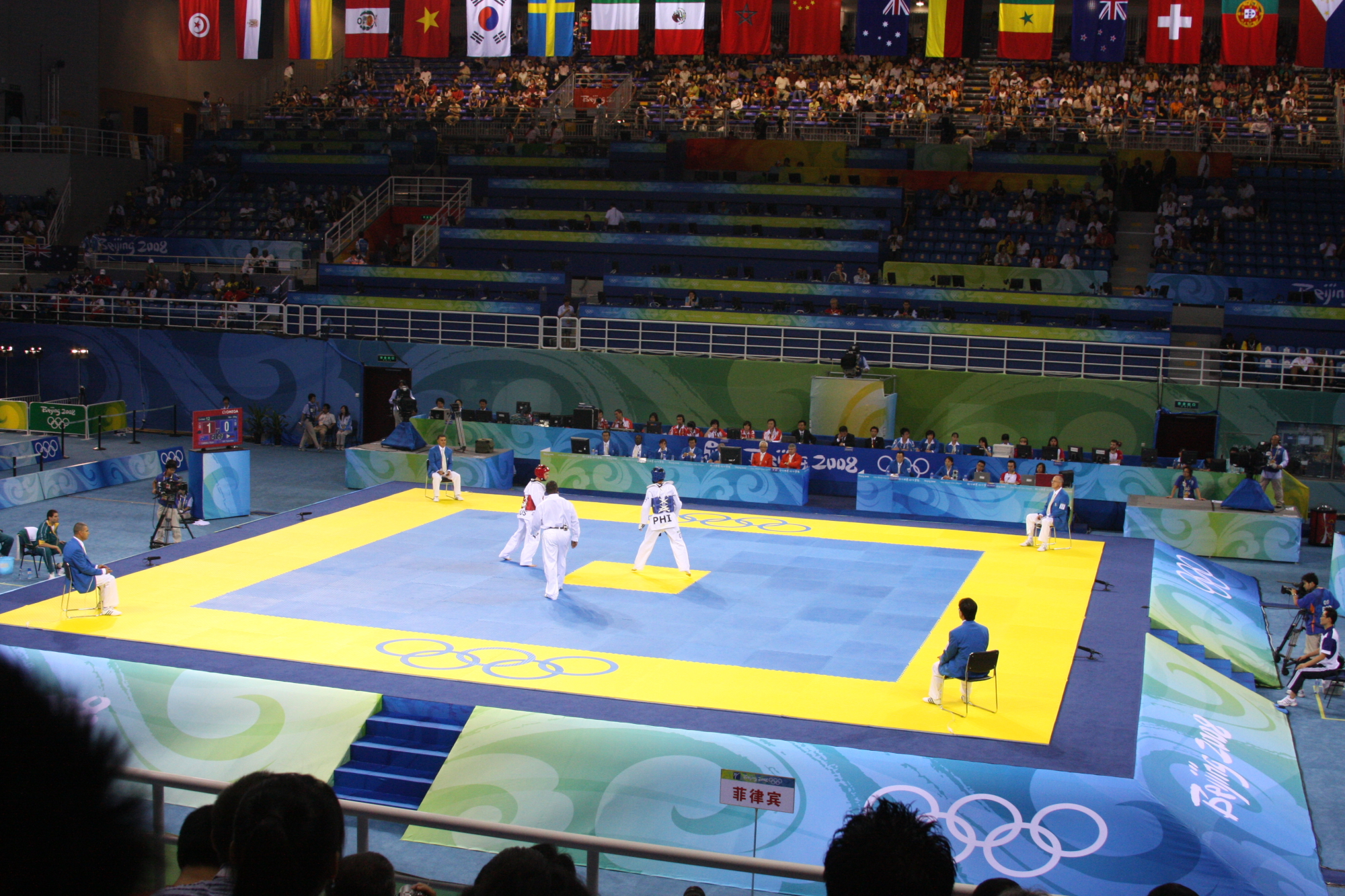 2008 Summer Olympics Taekwondo - Tshomlee Go (PHI, blue) v. Ryan Carneli (AUS, red)